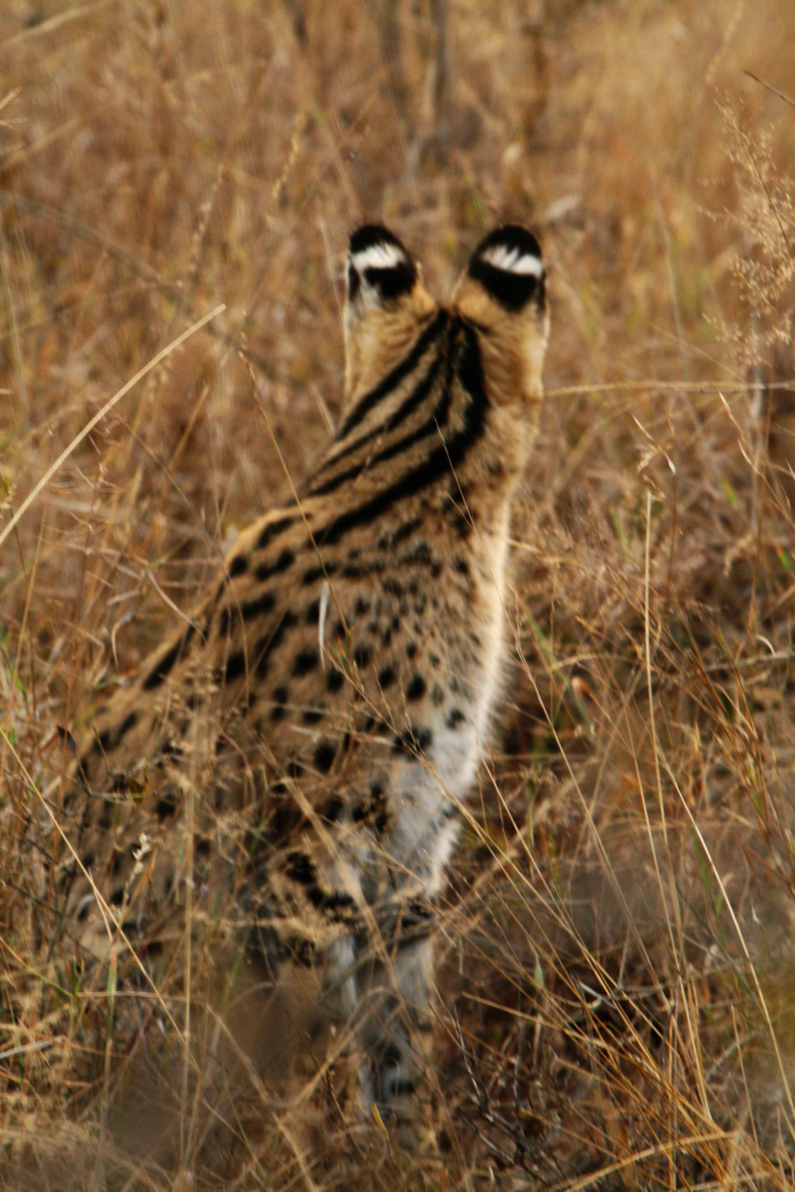 Serval Sabi Sands, South Africa. view from back. Photo by Lee R. Berger.